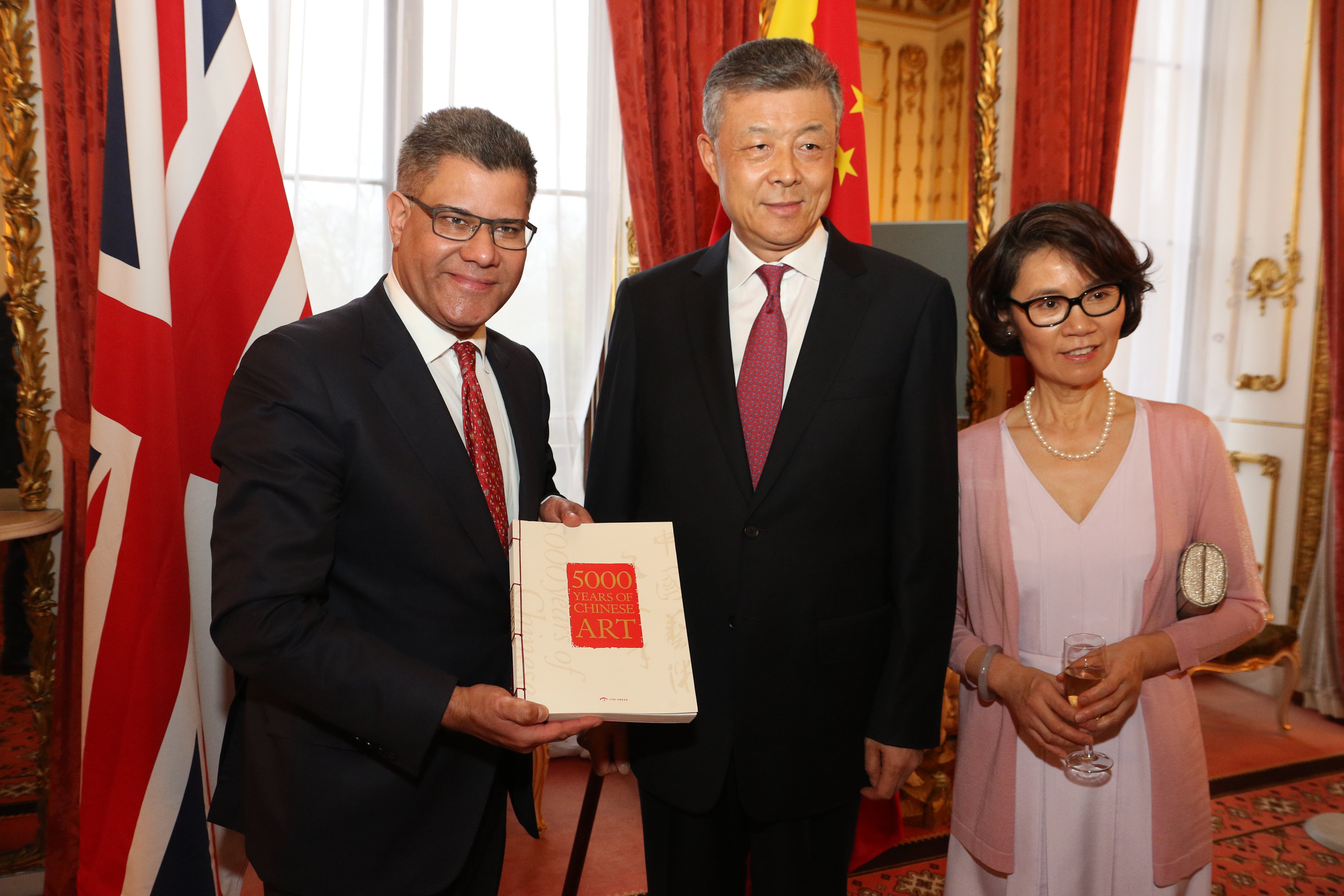 Event in London to mark the 45th anniversary year of ambassadorial relations between the UK and China, 29 March 2017.